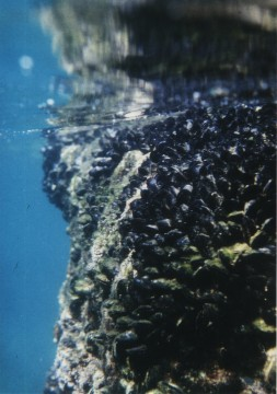 Dr. Armin Herbert - Mytilus galloprovincialis in Sublitoral